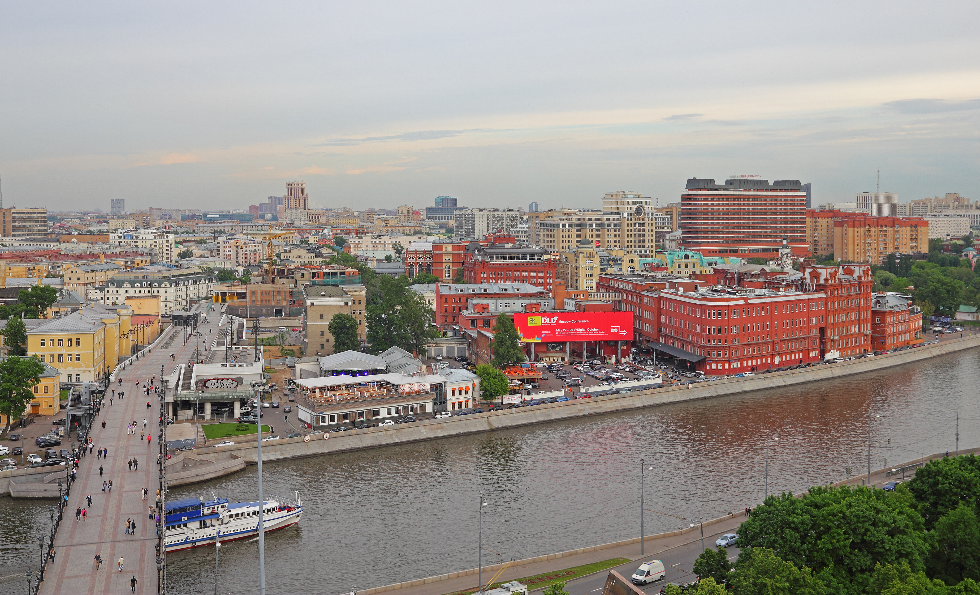 View from one of the four visitor's viewing platforms of the Cathedral of Christ the Saviour in Moscow.